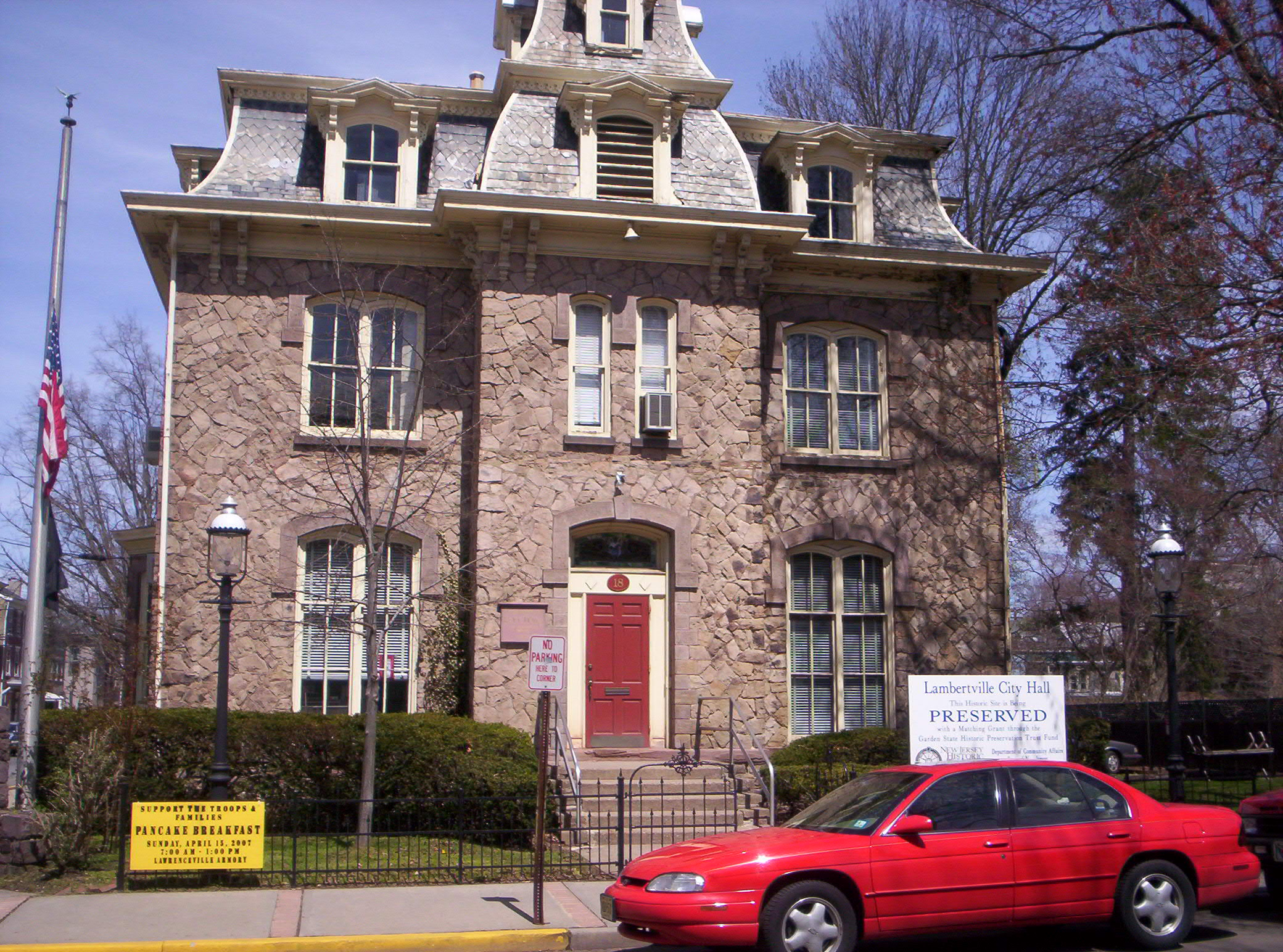 Lambertville, New Jersey-City Hall